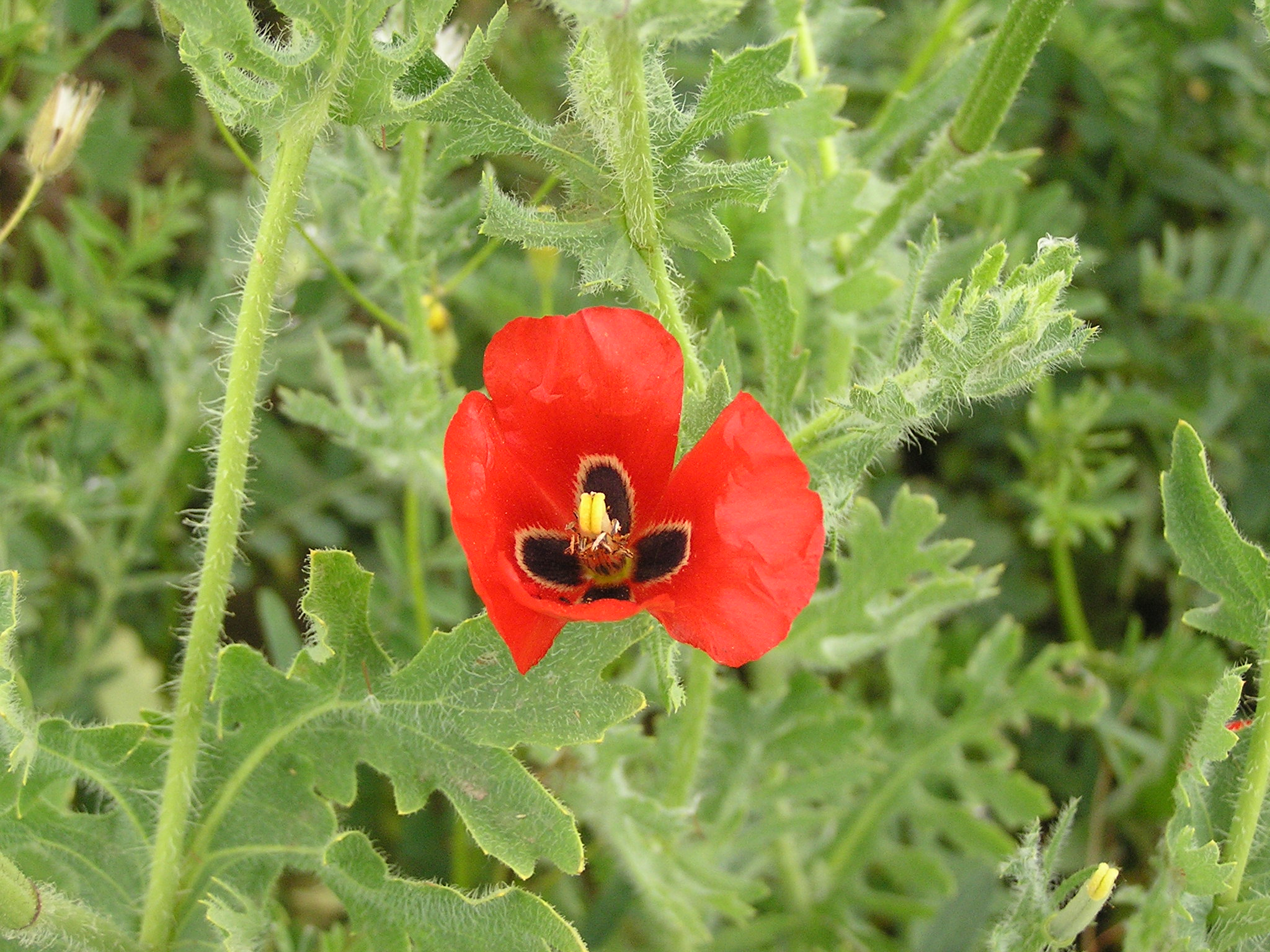 Plant